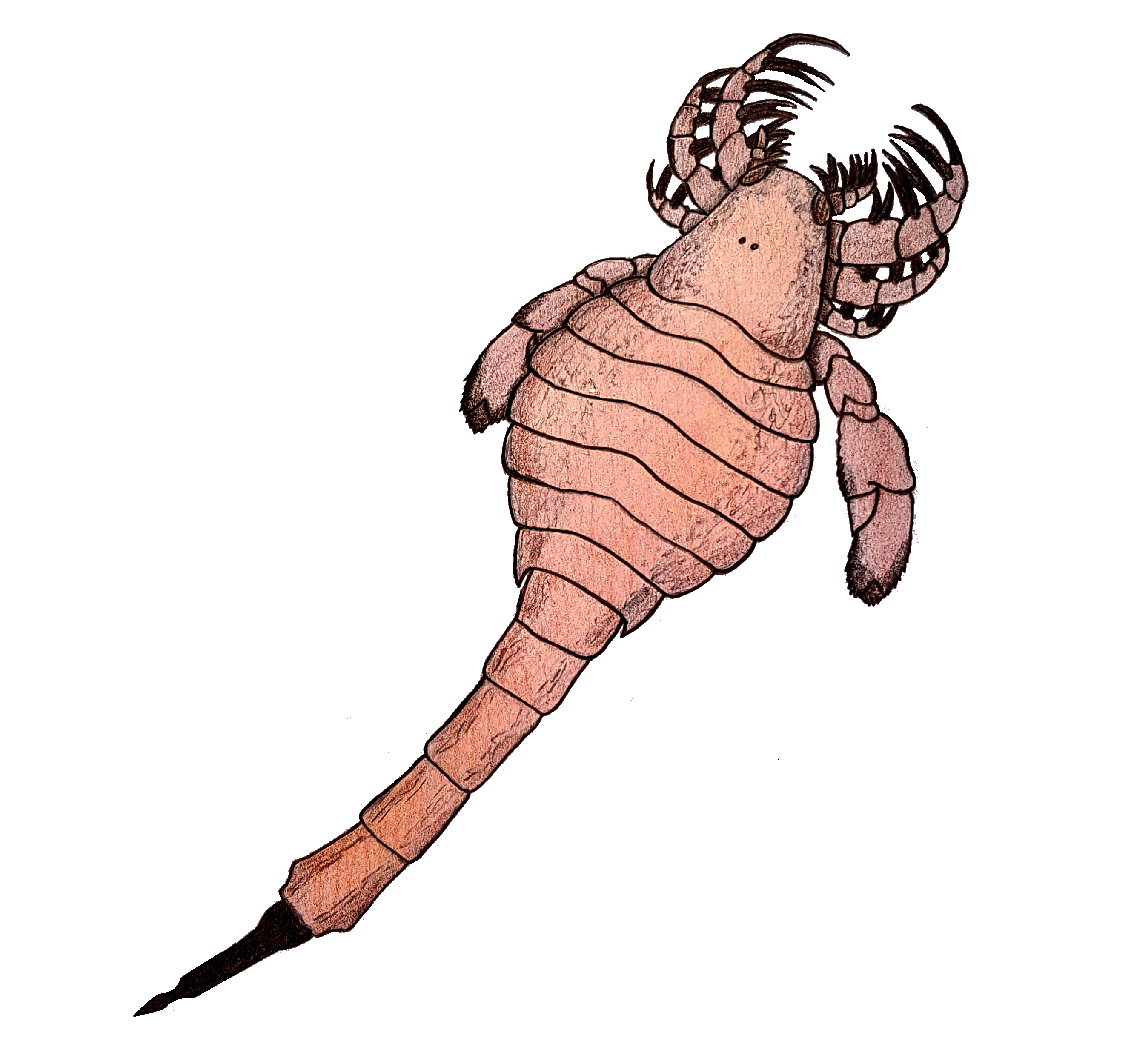 Reconstruction of eurypterid Carcinosoma newlini based on fossils. Coloration derives from conclusions by Kjellesvig-Waering (1958)